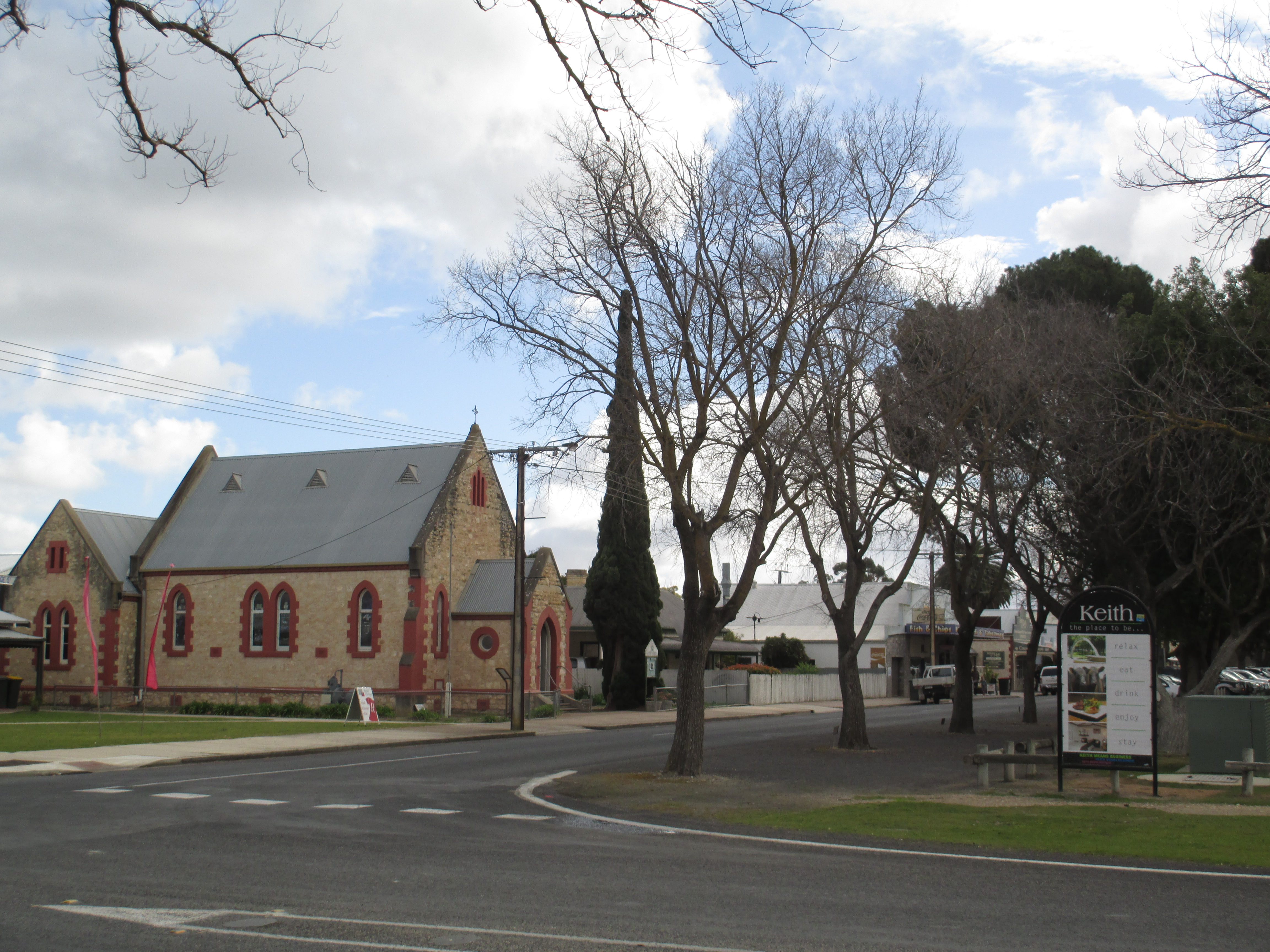 Now the National Trust museum, Keith, South Australia